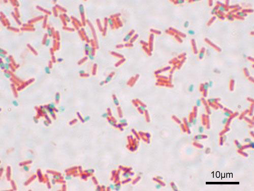 microscopic image of the bacterial spore formation of Bacillus subtilis(ATCC 6633) Spore staining, magnification:1,000. (green) spores, (red) vegetatives.